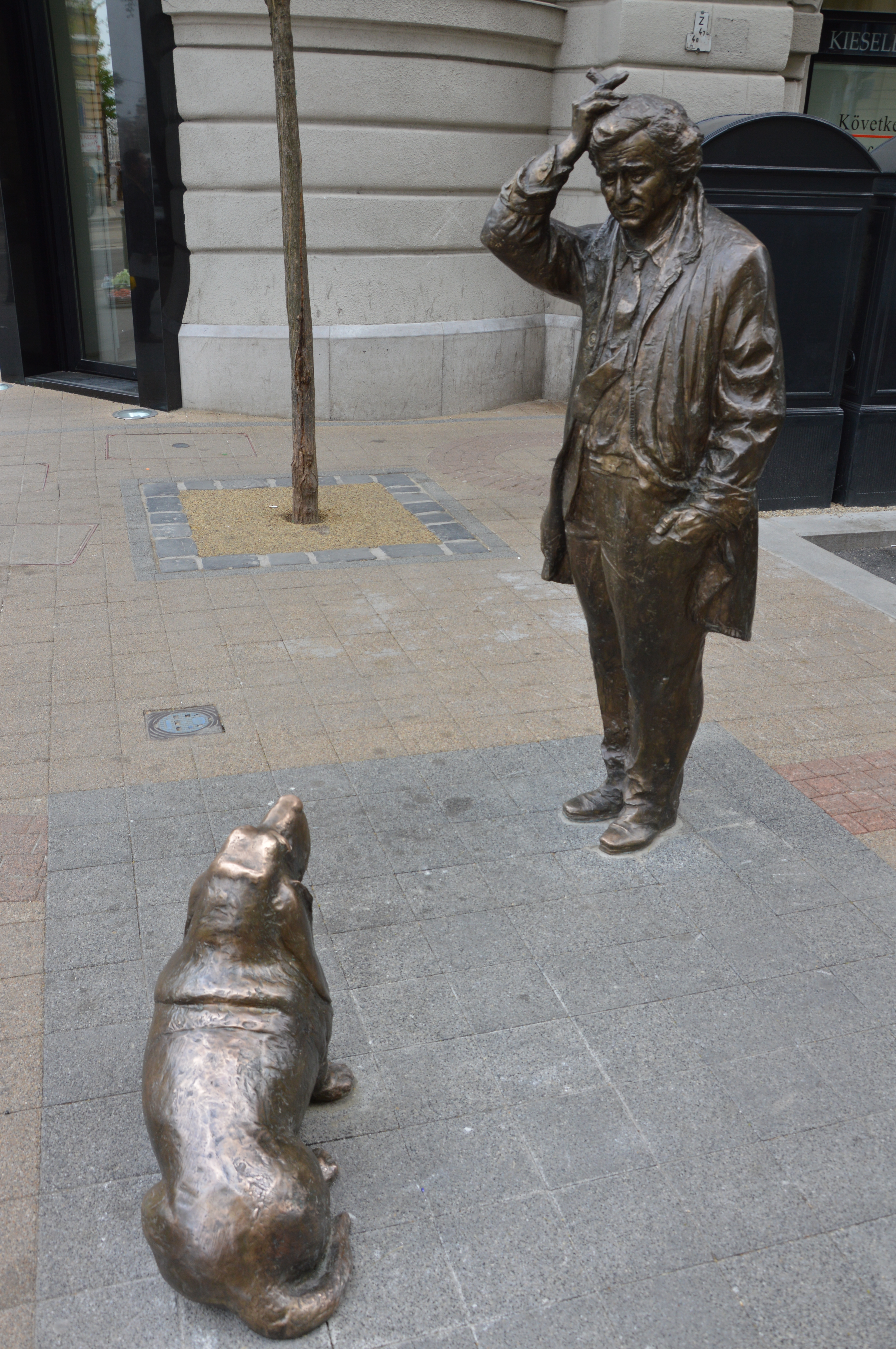 Géza Dezső Fekete's statue of Columbo and his dog on Falk Miksa utca in Budapest.